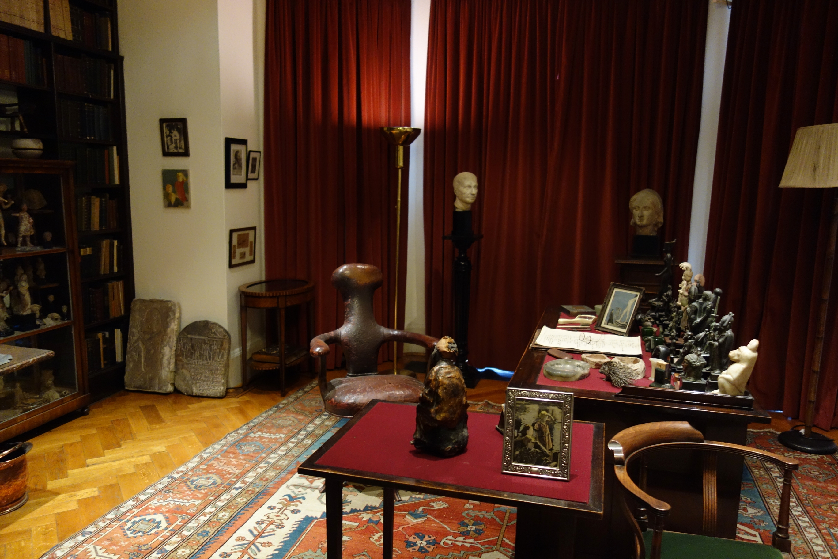 The Study with the desk. Freud Museum London.